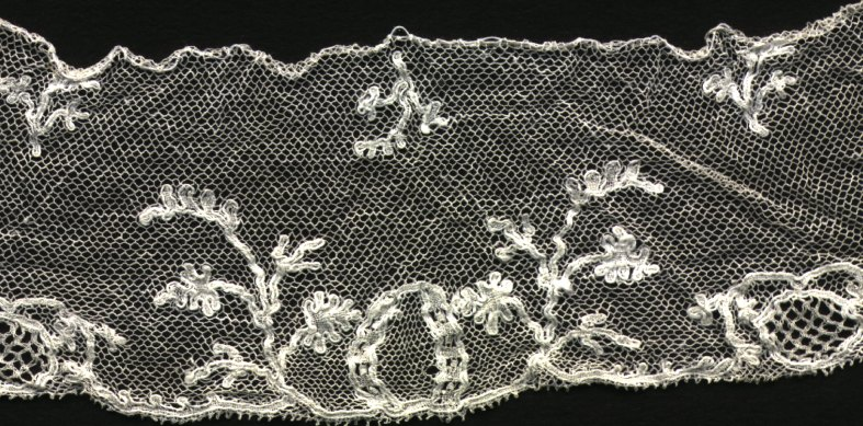 Mechlin lace, 19th century